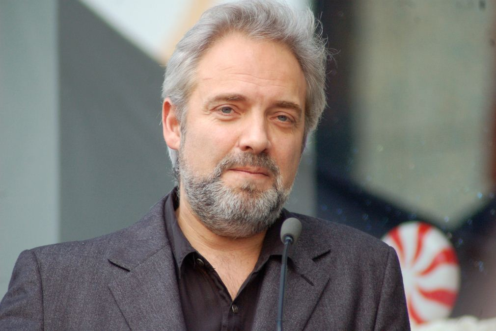 Sam Mendes at a ceremony for Javier Bardem to receive a star on the Hollywood Walk of Fame.